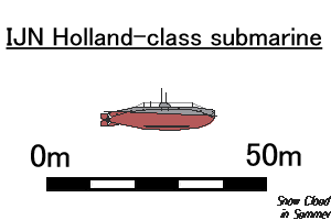 Figure of Holland-class submarine, first Submarine of Imperial Japanese Navy.